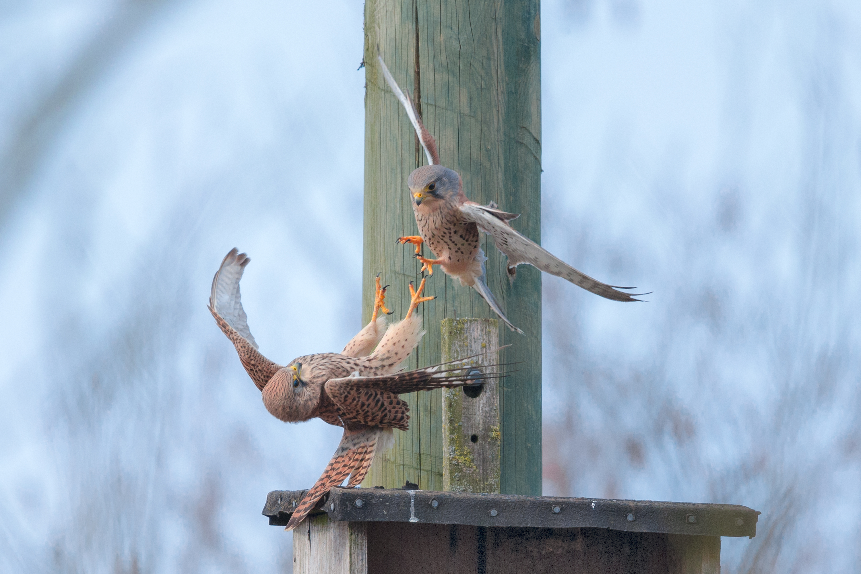 A female Common Kestrel (Falco tinnunculus) wards off an attack of a male bird.